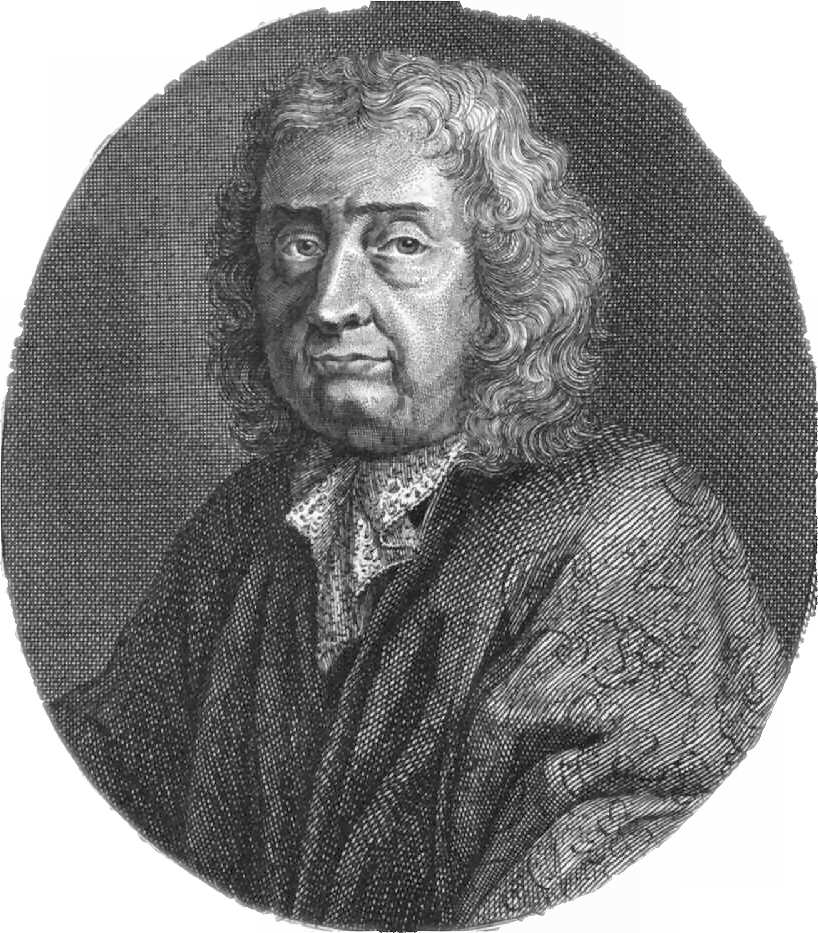 From here